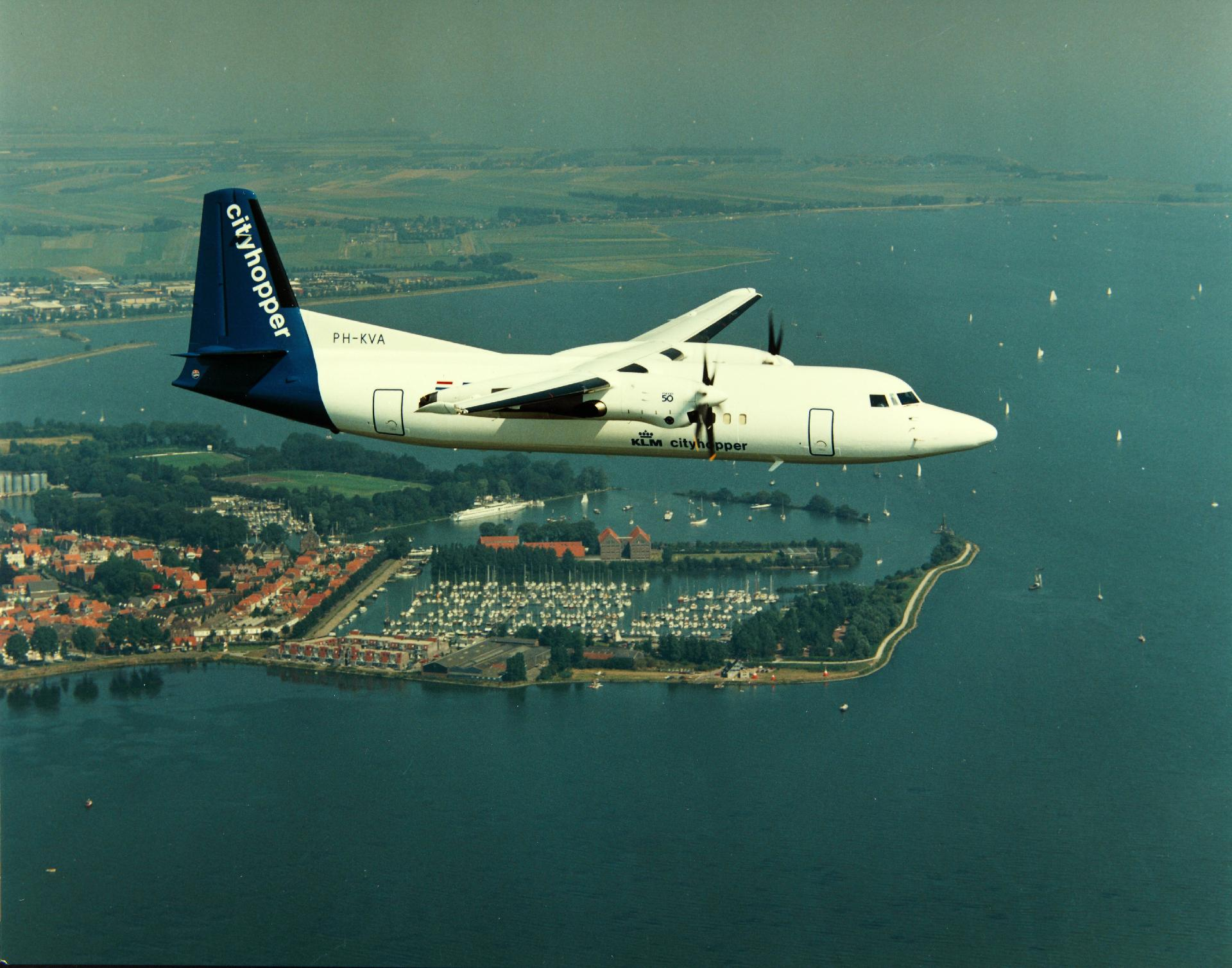 Catalog #: 01_00080511 Title: Fokker, Model 50 Corporation Name: Fokker Additional Information: Germany Designation: Model 50 Tags: Fokker, Model 50 Repository: San Diego Air and Space Museum Archive